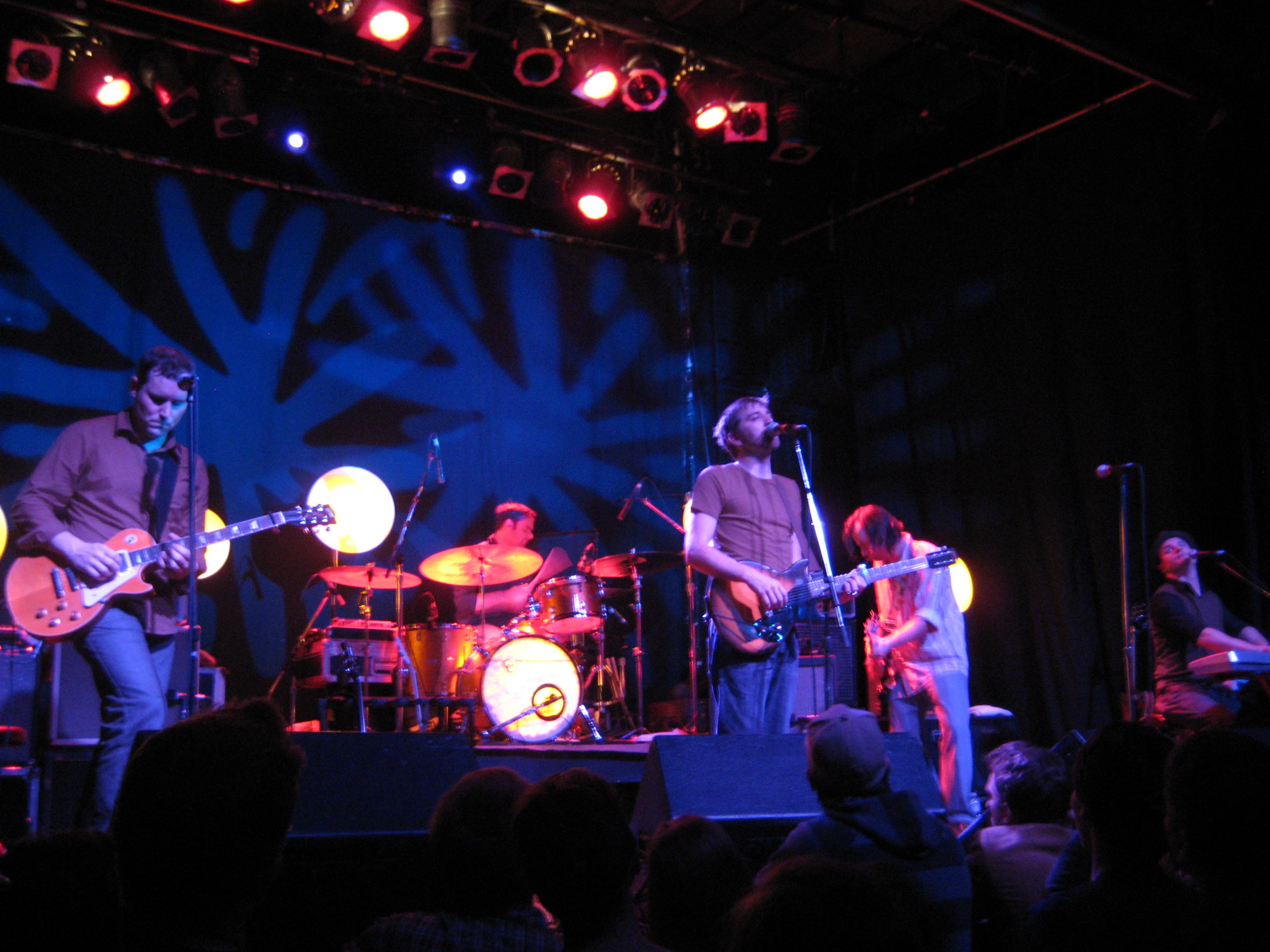 The Weakerthans performing in Toronto at The Phoenix